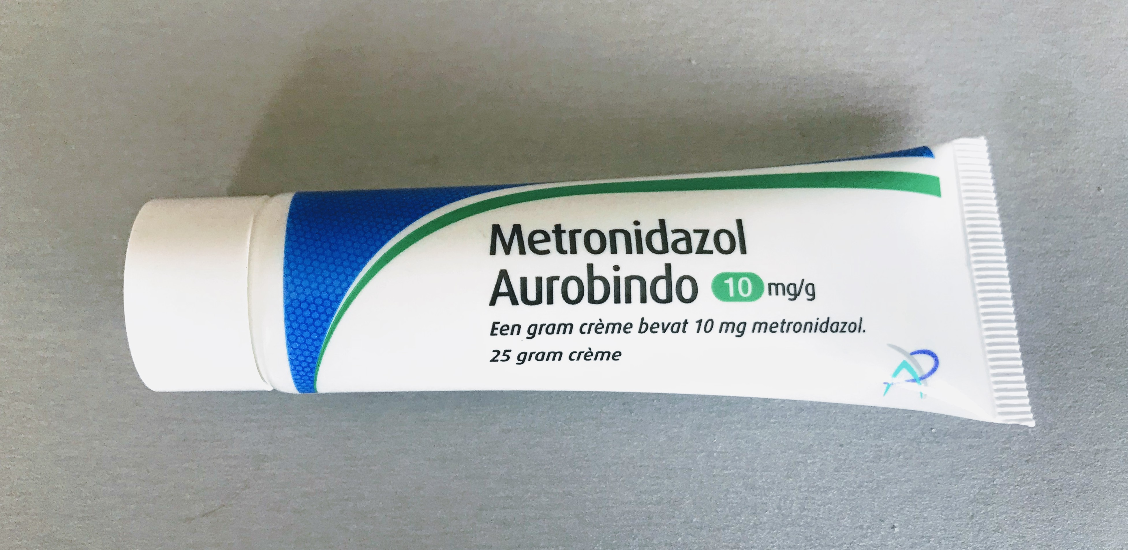 Metronidazole Aurobindo tube